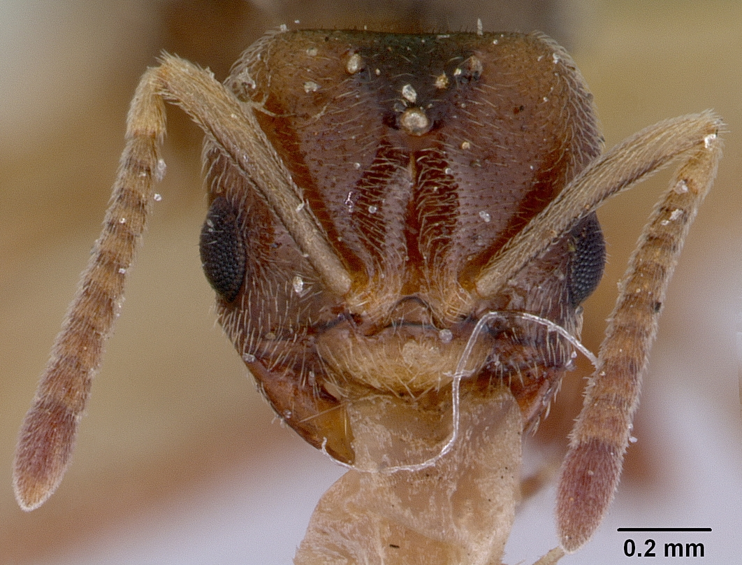 Head view of ant Acropyga myops specimen casent0172018.